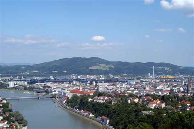 Austria, Linz, Danube